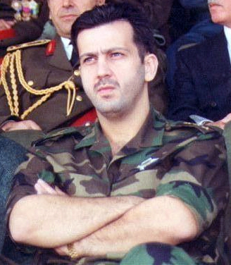 Maher al-Assad, the brother of Syrian president Bashar al-Assad and the commander of the Republican Guard and the army's elite Fourth Armored Division